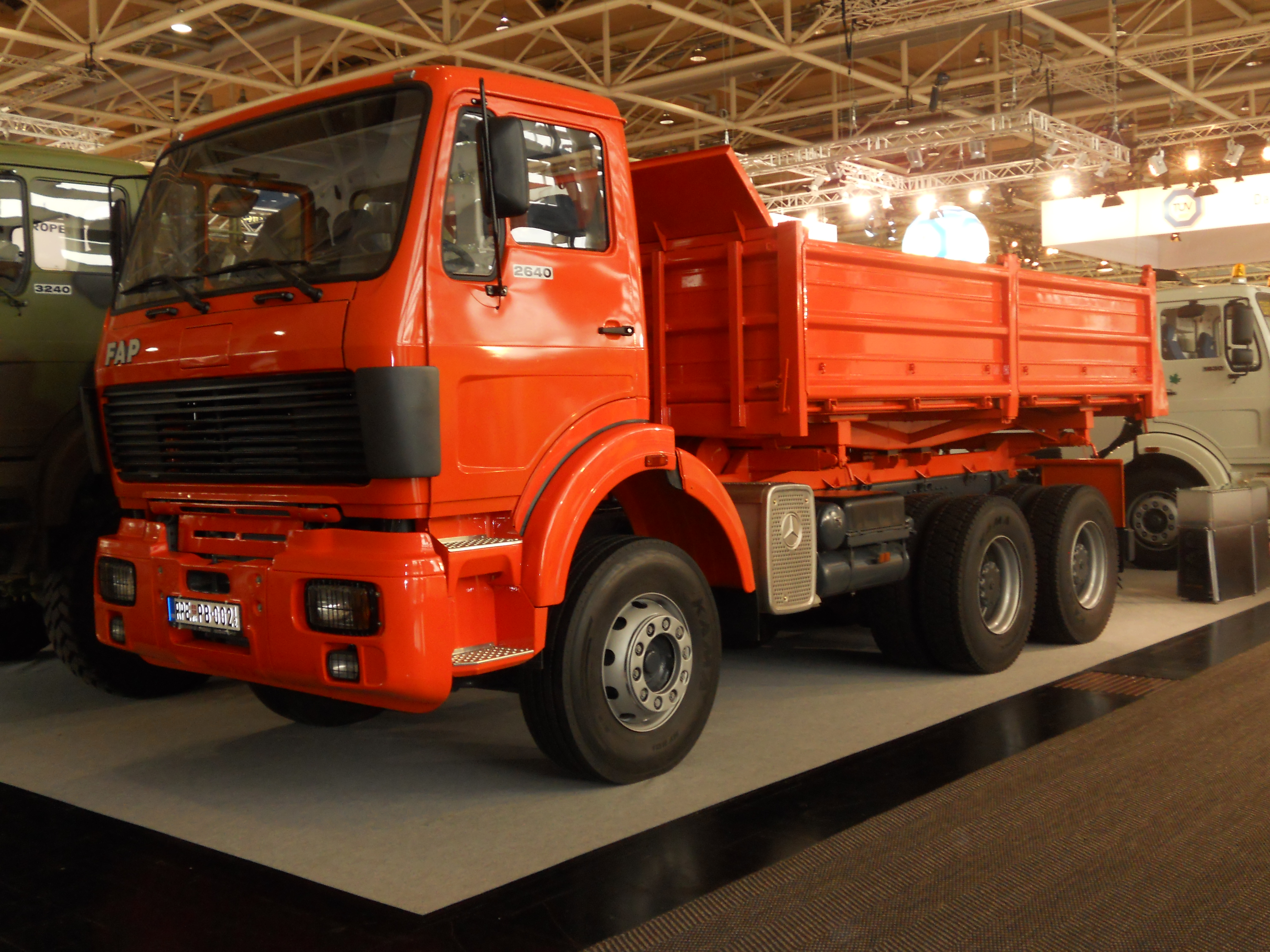 FAP 2640 dump rigid truck three-axle. Built 2012. On the left is hidden behind a FAP 3240 military truck. Photo taken at exhibition IAA 2012 in Hanover, Germany